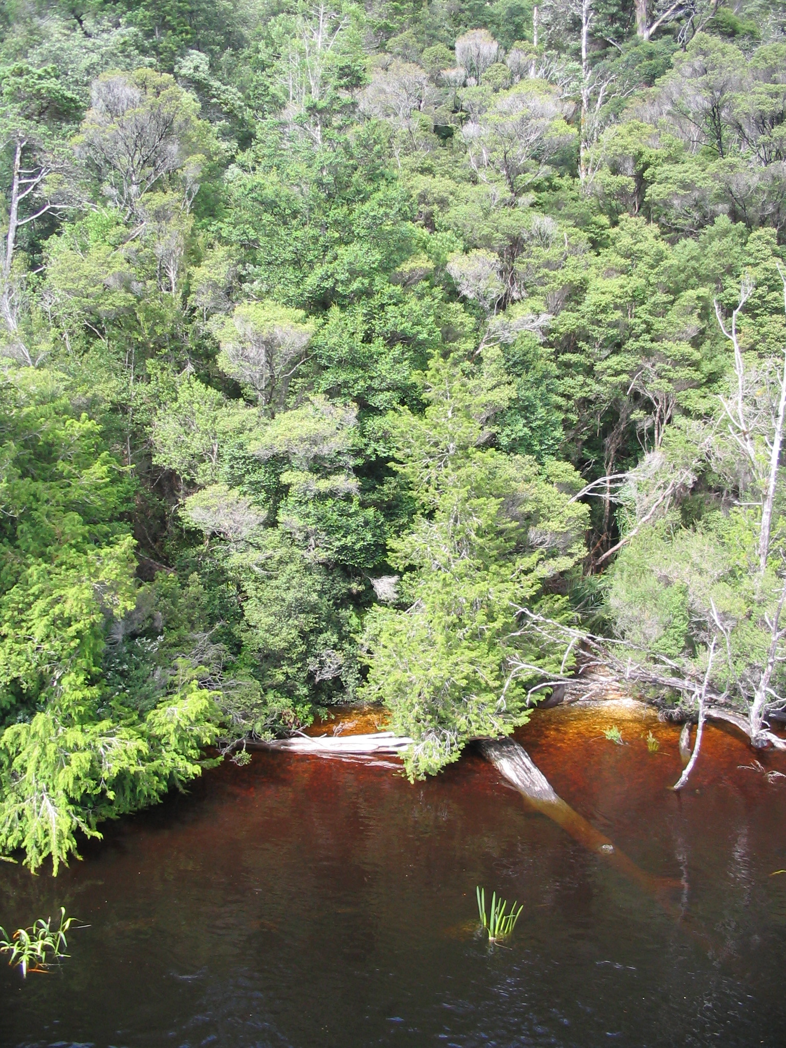 Gordon River, Western Tasmania, Australia. Shows detail of river edge with trees. The water is stained dark with tannins from the vegetation. Taken from a cruise boat.